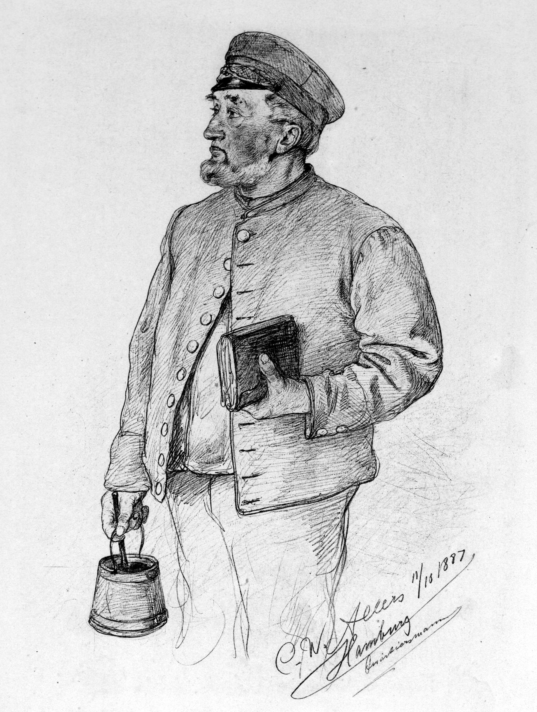 Dock worker